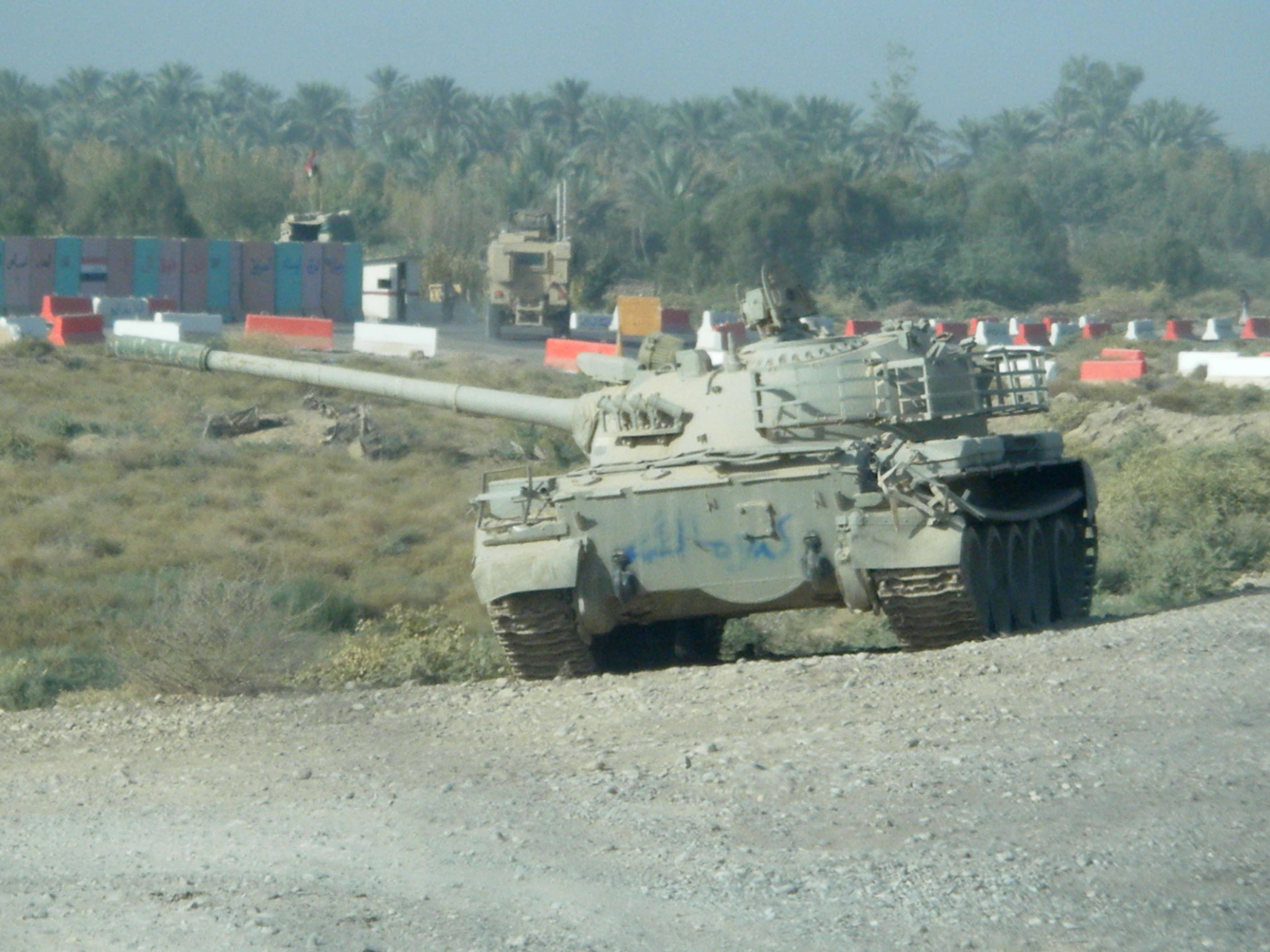 Fob Normandy